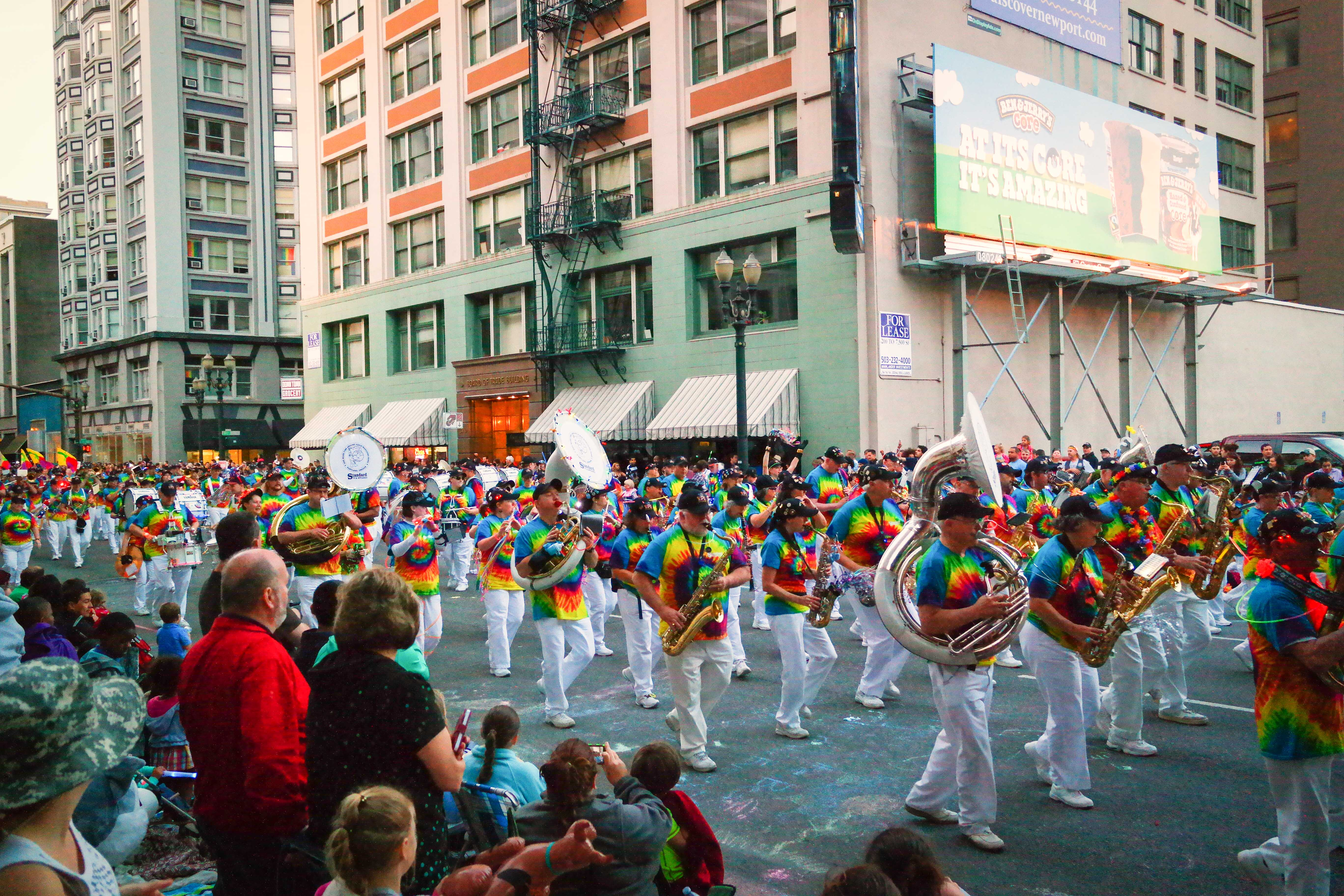 The 2014 Starlight Parade in Portland, Oregon